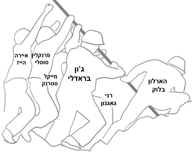 Outline of the figures at the flag raising on Iwo Jima with Hebrew names